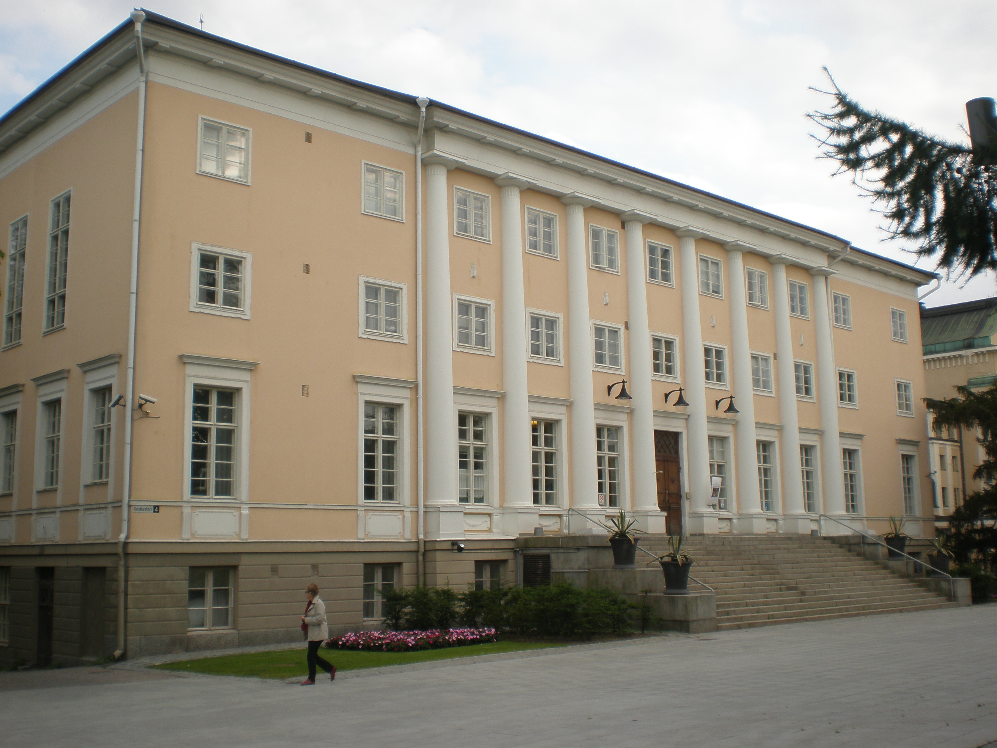 The Old Library Buildings in Tampere, Finland, was designed by architects Jussi and Toivo Paatela and completed in 1925.